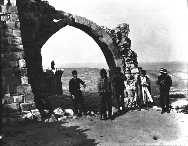 Inhabitants of Shoubak, Transjordan, surrouding church ruins in March 1900